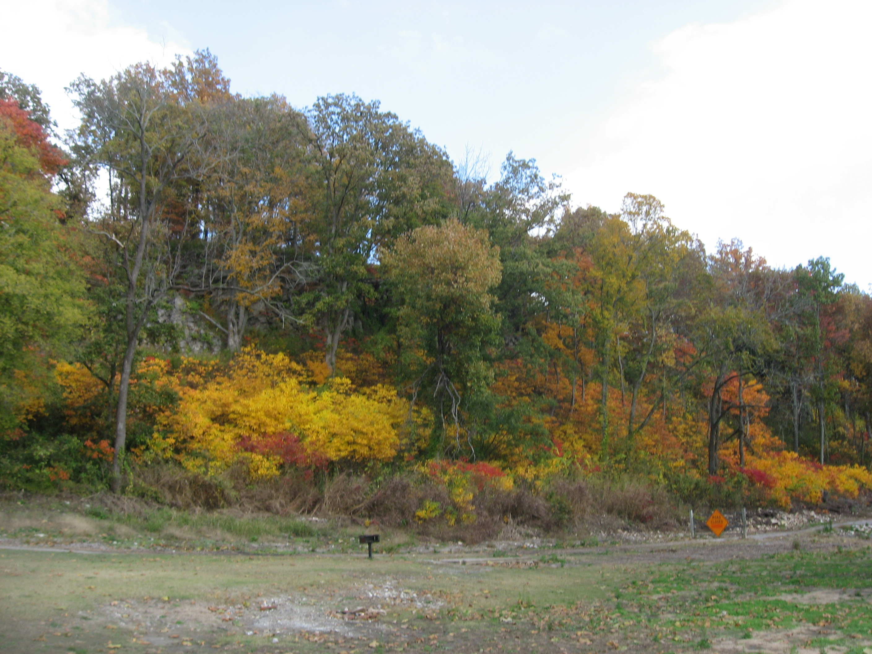 Western side of the hillside in Grand Tower Park, located off Front Street along the Mississippi River in Grand Tower, Illinois, United States. This hillside is part of the Grand Tower Mining, Manufacturing and Transportation Company Site, an industrial archaeological site that is listed on the National Register of Historic Places.